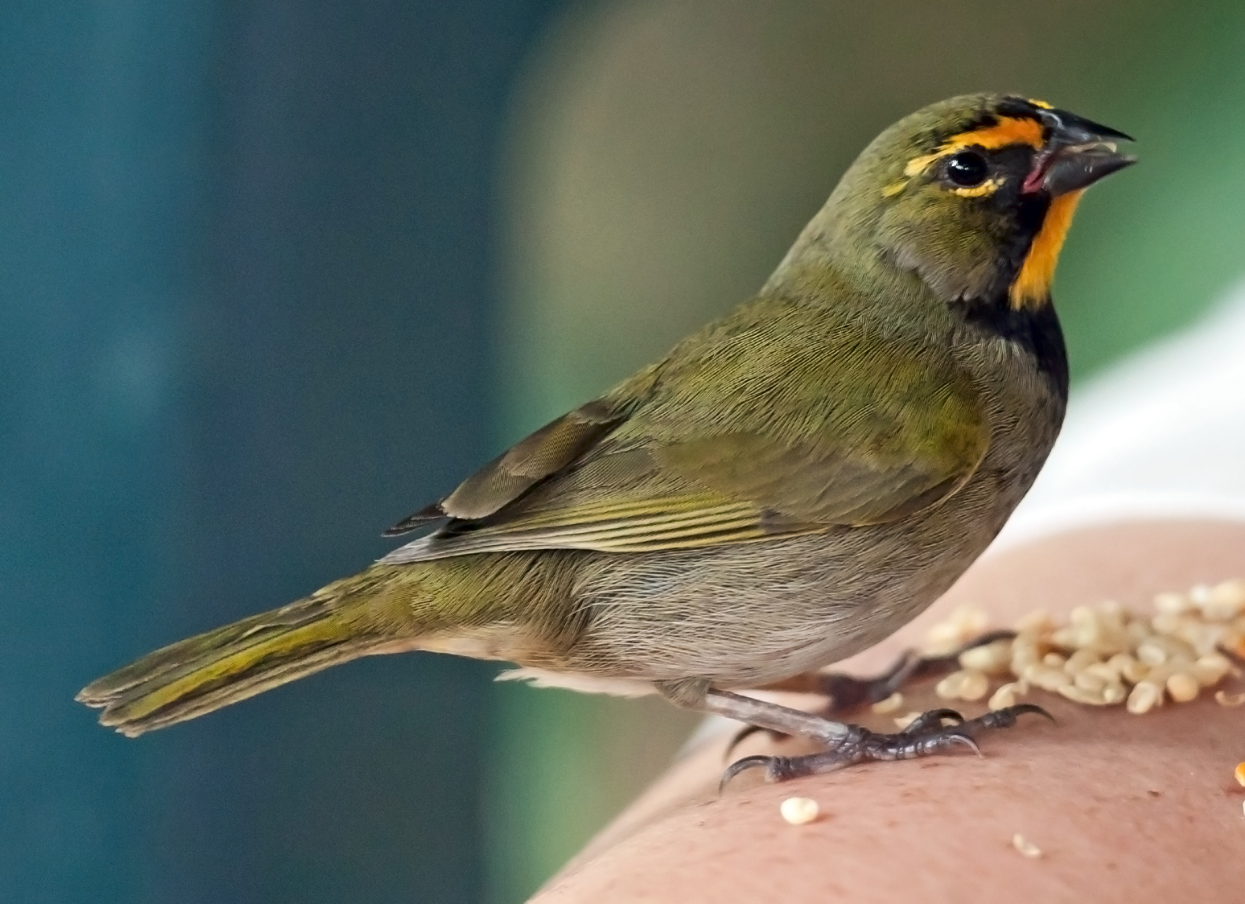 Taken at the Rocklands Bird Sancturary in Jamaica. For more pictures of this bird, visit